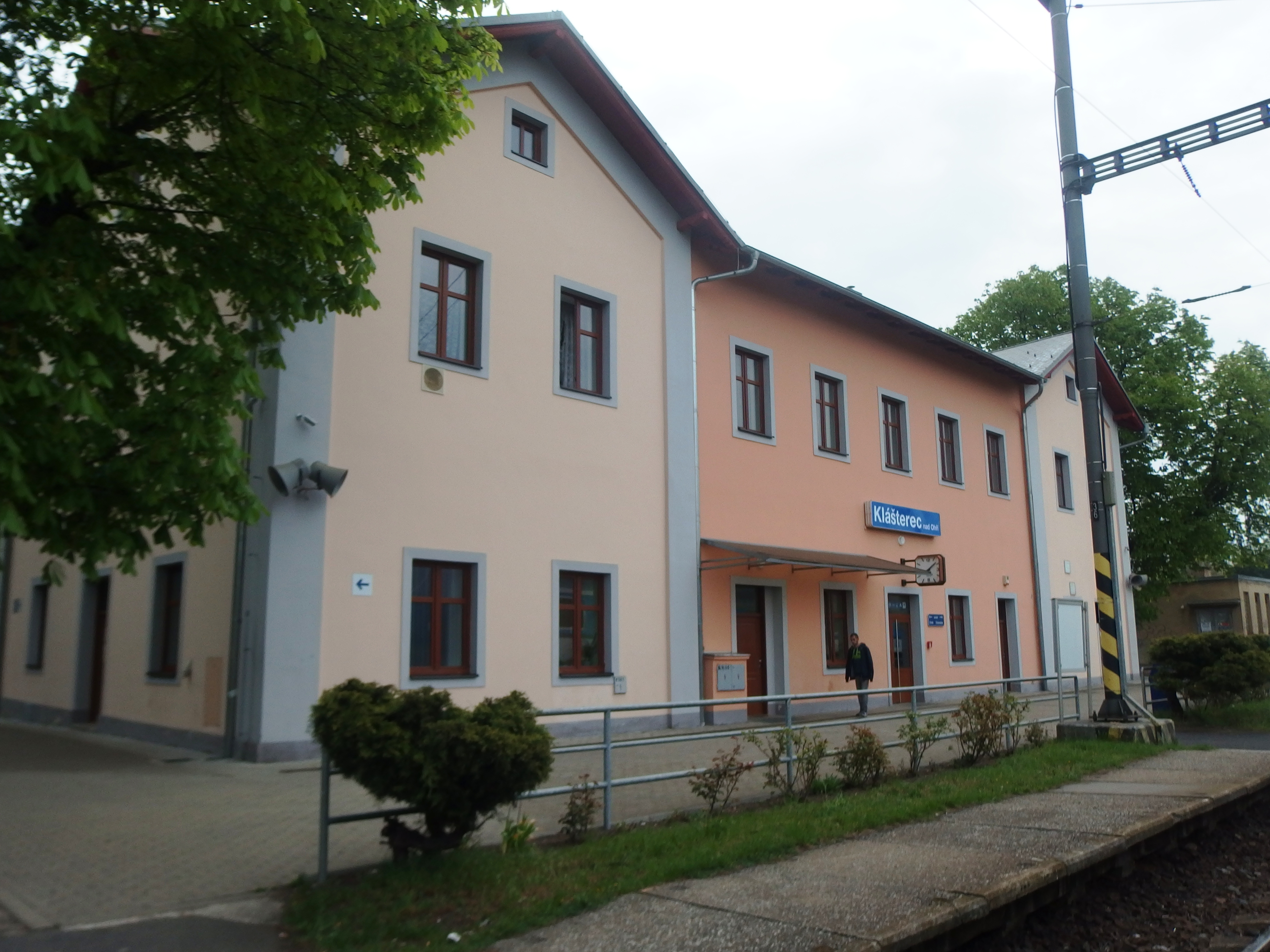 Klášterec nad Ohří, Chomutov District, Czech Republic.